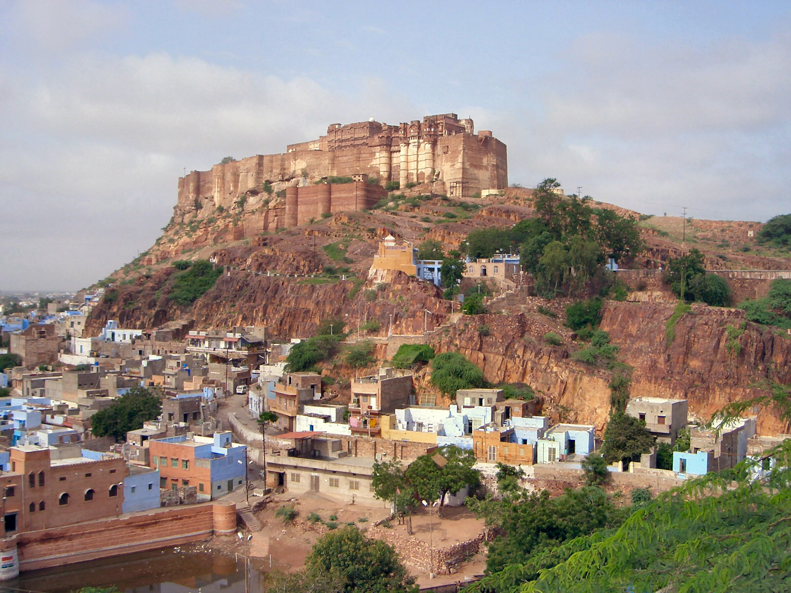 Jodhpur, India